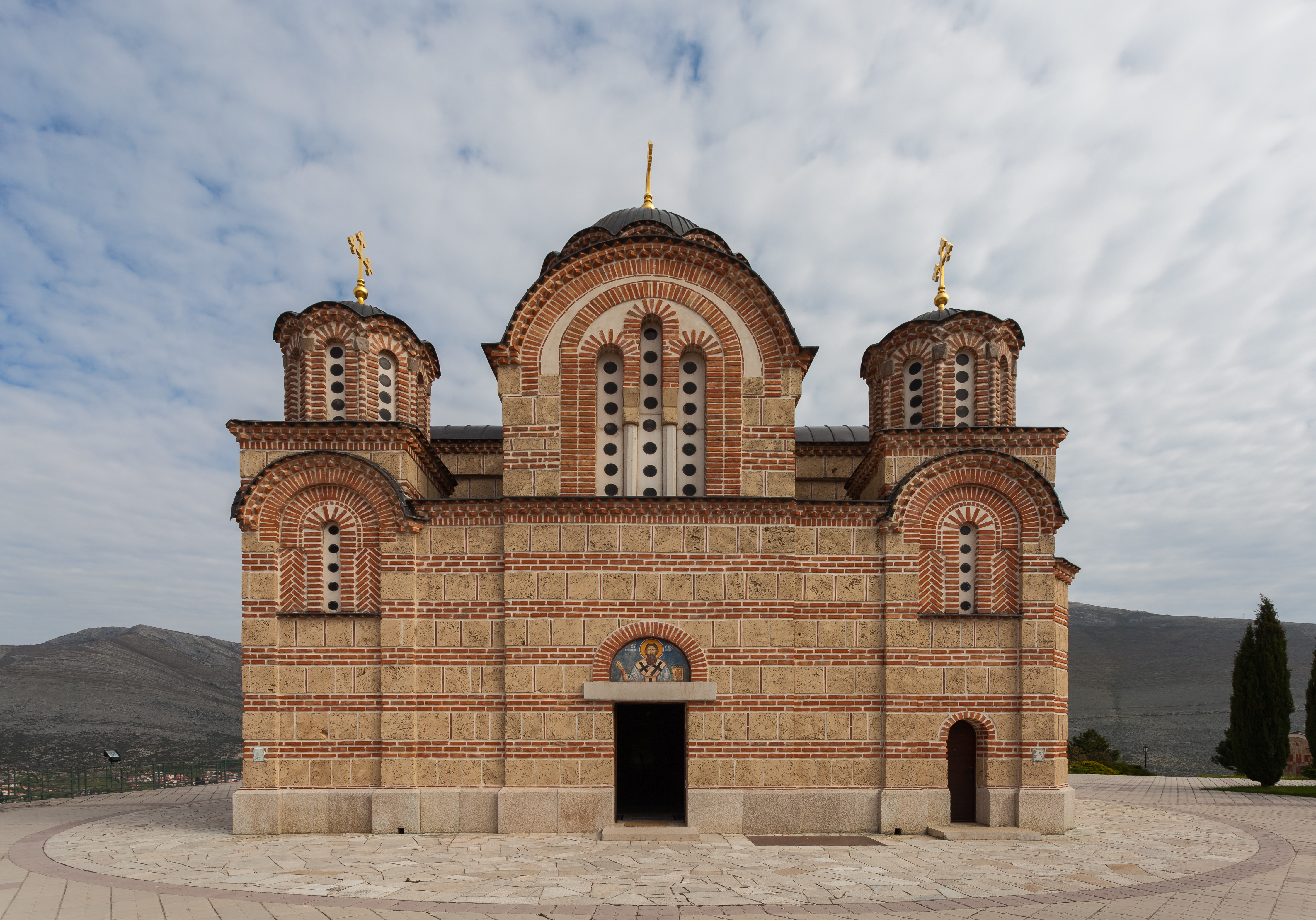 Nova Gracanica church, Trebinje, Bosnia and Herzegovina